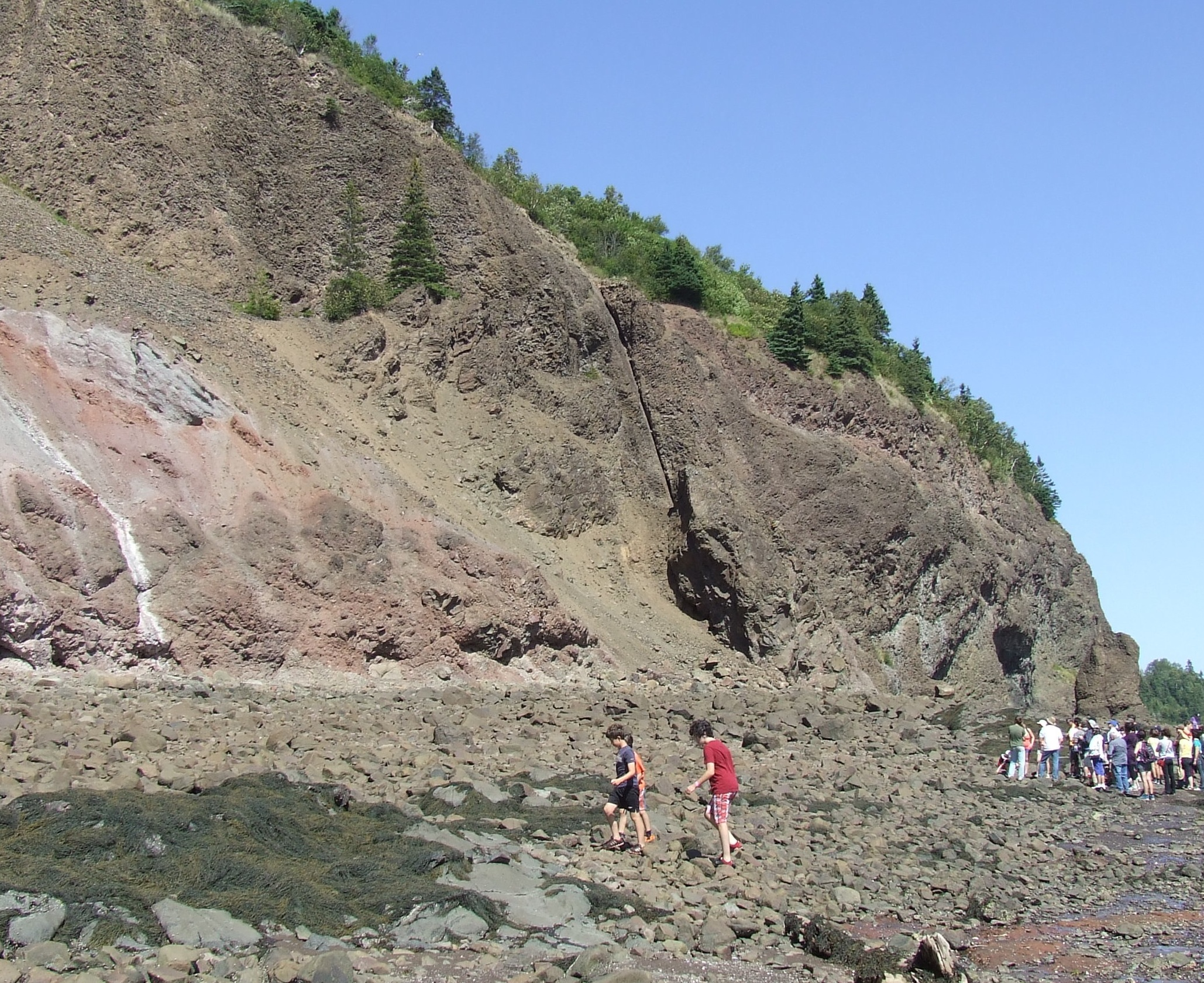 Eastern end of Wasson Bluff where reddish sandstones of the McCoy Brook Formation (Lower Jurassic: Hettangian to Pliensbachian) are onlapping on the dark brown weathering Hettangian North Mountain Basalt. Since all the strata are inclined by about 30° to the west and due to the angle of shooting, the onlapping of the sandstones is not well visible in the picture. North shore of the Minas Basin, about 7 km SE from Parrsboro, Nova Scotia, Canada. Photo was taken at low tide.